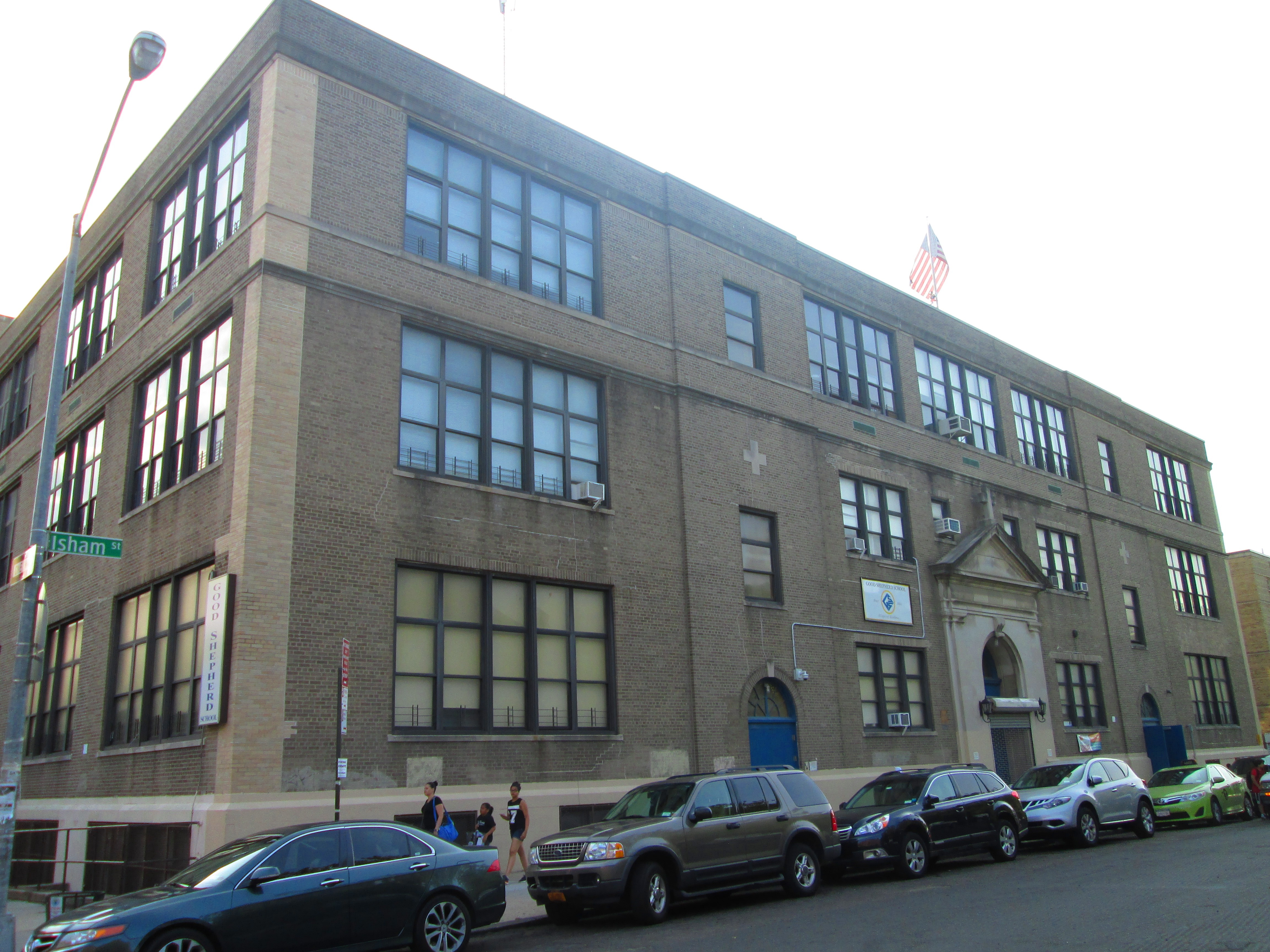 The Good Shepherd School at 620 Isham Street at the corner of Cooper Street in the Inwood neighborhood of Manhattan, New York City, was founded in 1927.